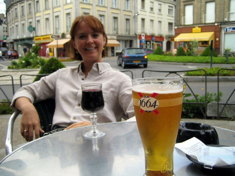 Notice which of the items in this photo are in focus. Dennis says that shows how much he needed the beer! [It's true I REALLY needed it!]